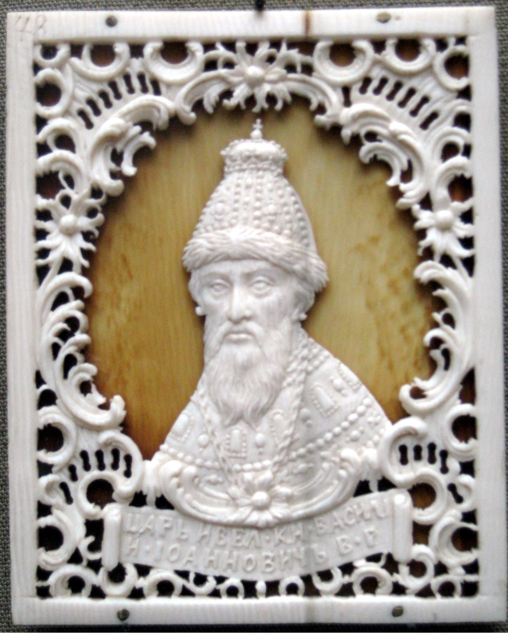 Portraits from serie "Genealogy of russian great princes and tsars, 1750-1775s, bone. Vasili IV of Russia